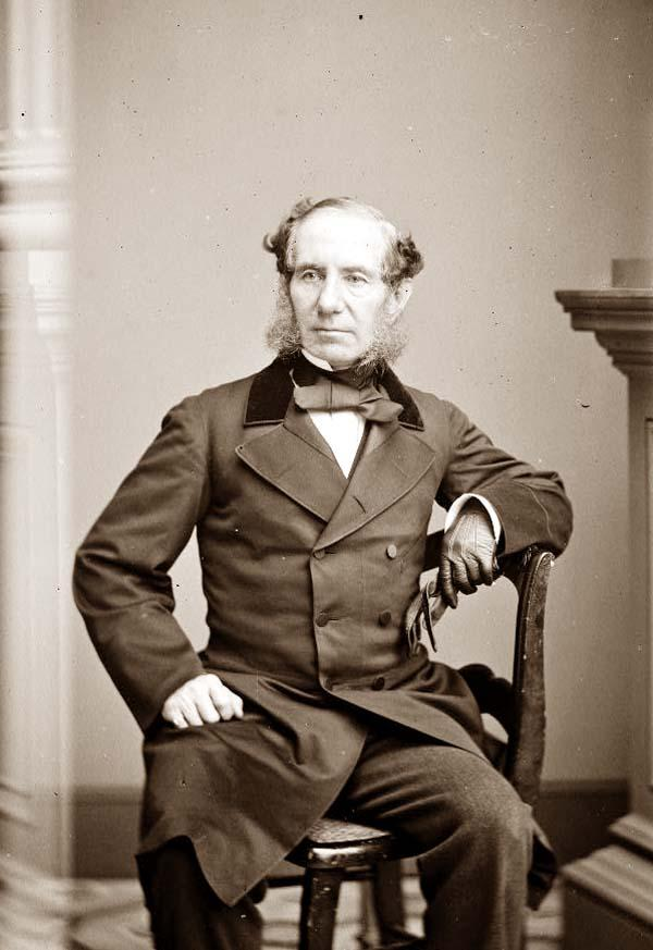 Photograph of Edward Mortimer Archibald (1810–1884), British Consul in New York (1857–1883)